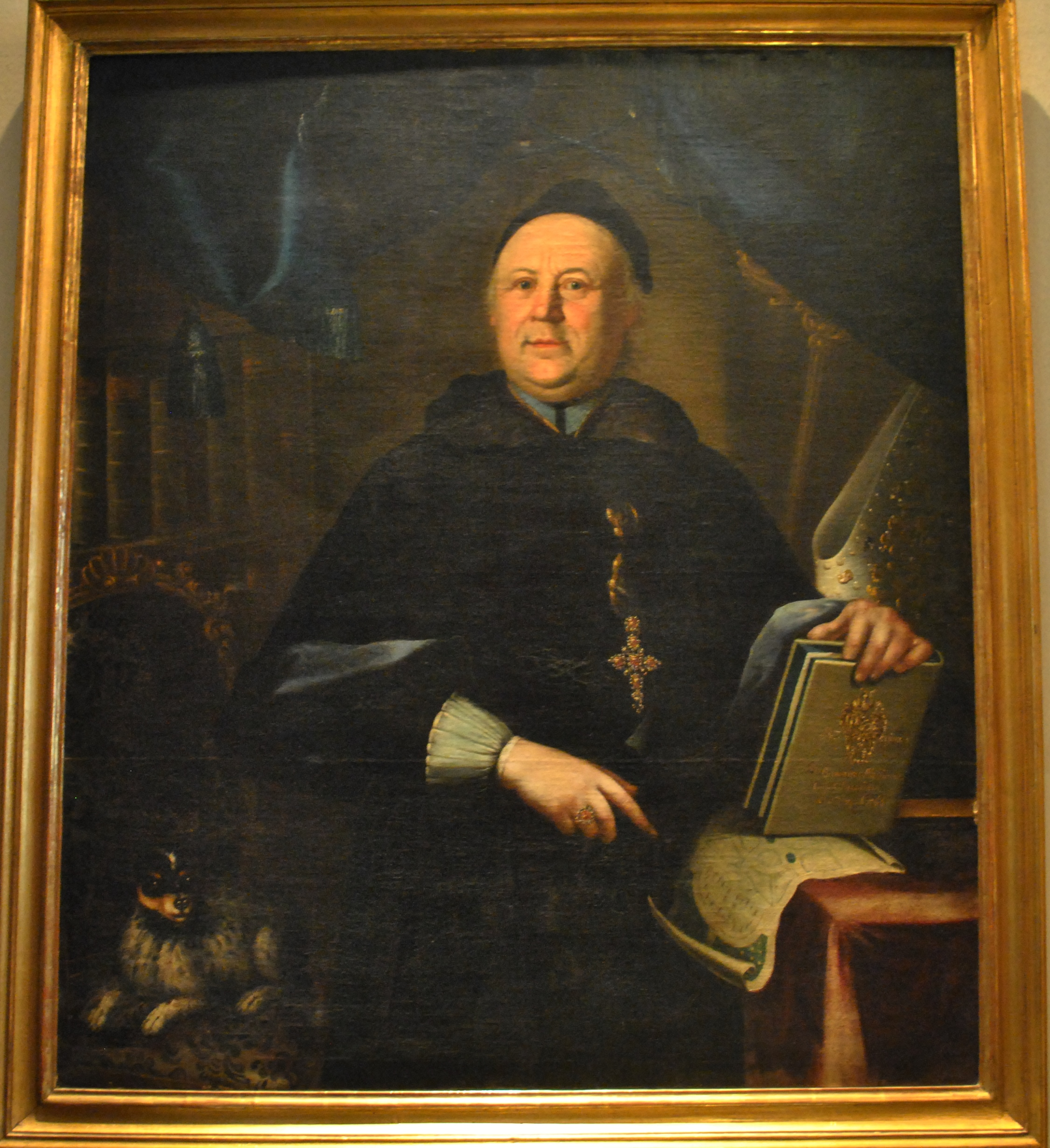 Portrait of Bernhard Breunig (1724-1797), Abbot of Obertheres.